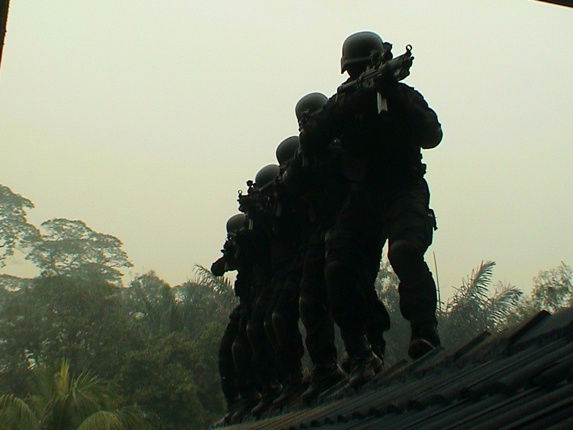 The Special Actions Unit with MP5 submachineguns move forward at the roof top to "hostiles target" during a Counter-Terrorism mock-up exercise. Taken by me at the PGK A Special Operations Training Facility in Bukit Aman, Kuala Lumpur.